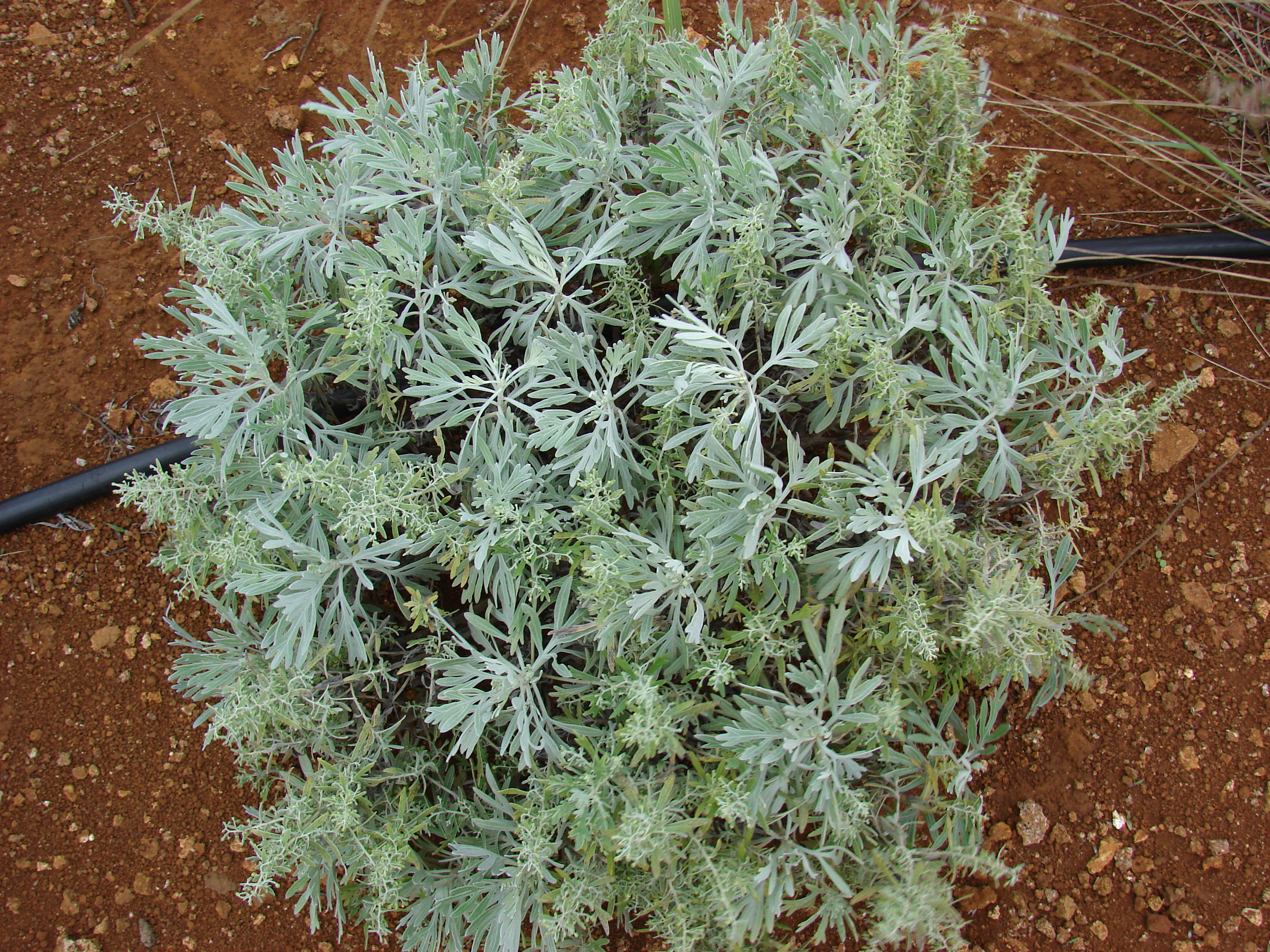 Artemisia australis (flowering habit). Location: Kahoolawe, Uprange